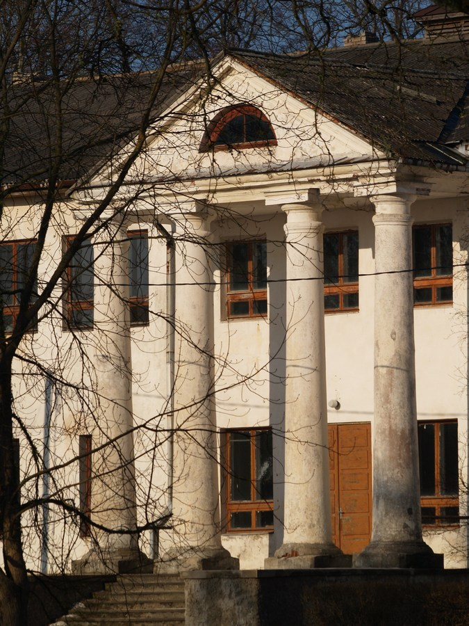 Pootsi manour